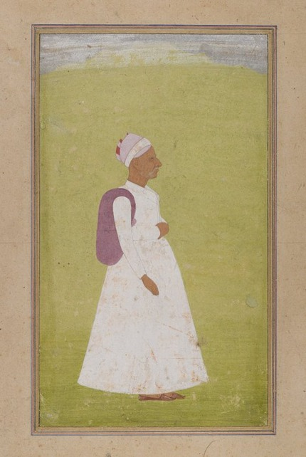 Indian portrait paintings often depict their subjects standing in profile against a plain backdrop. This quiet, delicate portrait of an unidentified older man appears to have been made in Marwar, the princely state surrounding the city of Jodhpur in Rajasthan, because the man wears a Marwari-style turban. He does not wear particularly opulent clothing: he lacks jewelry, a sword, or the decorative sash usually sported by courtiers in this period. The emphasis of the painting seems to be on the sensitive rendering of his wrinkled face and on the unusual purple sack that he carries over one shoulder. It is likely that this man was an honored artist or scholar, someone worth celebrating in a courtly portrait but not a member of the aristocracy.